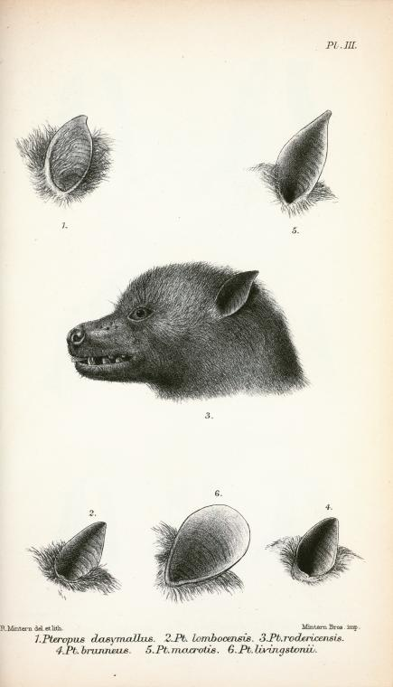 Pteropus dasymallus; 2. Pteropus lombocensis; 3. Pteropus rodericensis; 4. Pteropus brunneus; 5. Pteropus macrotis; 6. P. livingstonii. Catalogue of the chiroptera. By G.E. Dobson.